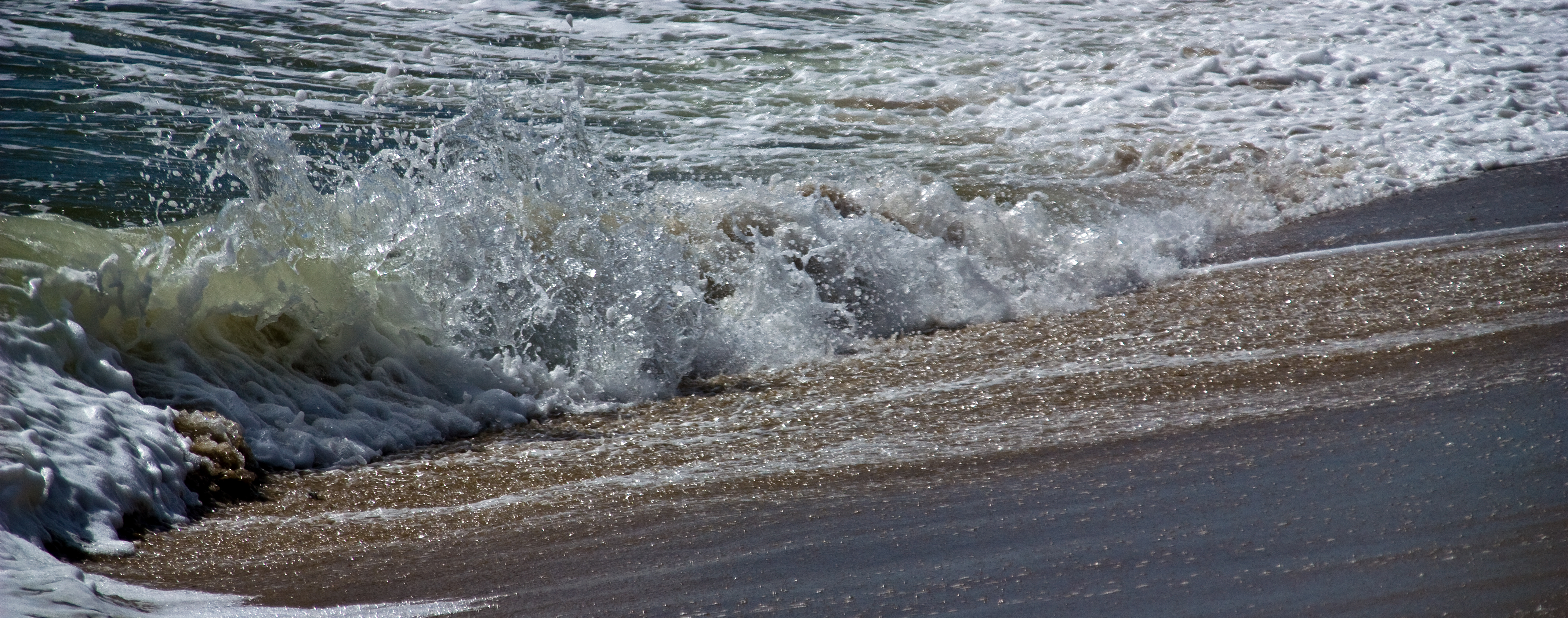 Undertow on the beach in Nantucket, Massachusetts